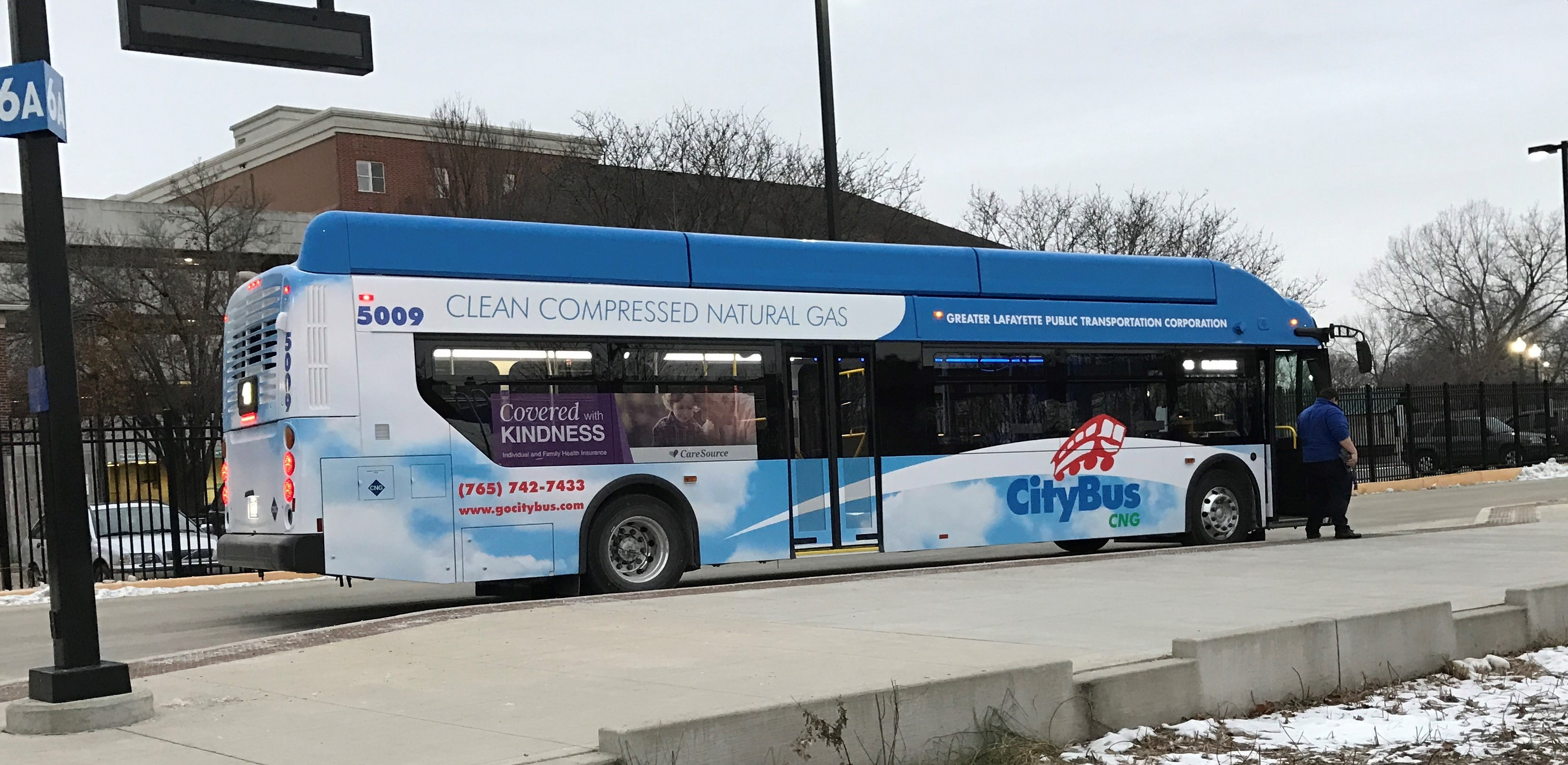 CityBus #5009 at the CityBus Center in Lafayette, Indiana, December 2016